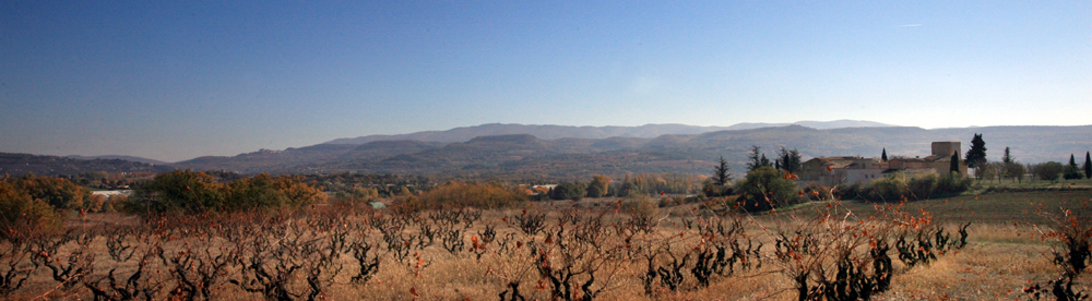 the "Grand" (tall) Luberon (84), France. It is a view from north-west.